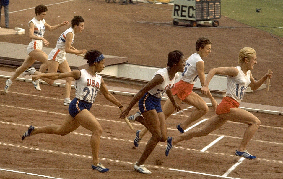 Halina Herrmann-Gorecka-Richter of Poland passes the baton to Ewa Klobukowska, Willie White of USA passes the baton to Edith McGuire and Daphne Arden of Great Britain passes the baton to Dorothy Hyman in the Women's 4x100m Relay Final during Tokyo Olympic at the National Stadium on October 21, 1964 in Tokyo, Japan.